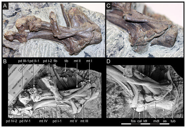 Figure 19: Diluvicursor pickeringi gen. et sp. nov. holotype (NMV P221080), distal right crus, tarsus and pes. A–B, distal tibia, fibula and proximal tarsus in anterior view and distal tarsus and pes in plantomedial view: (A) uncoated; and (B) NH4Cl coated. (C) Proximal tarsus in anteroventral view and distal tarsus and pes in proximo-plantomedial view. (D) Distal tibia and proximal tarsus in anterodistal view and distal tarsus and pes in plantomedial view, NH4Cl coated. Abbreviations: as, astragalus; cal, calcaneum; fib, fibula; fos, fossa; ldt, lateral distal tarsal; mdt, medial distal tarsal; mt #, metatarsal position; pd #, pedal digit number and phalanx position; tib, tibia; tub, tuberosity. Scale increments in B equal 1 mm. Scale bar in D equals 50 mm.